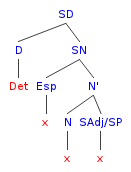 Structure of Determiner Phrase in Spanish